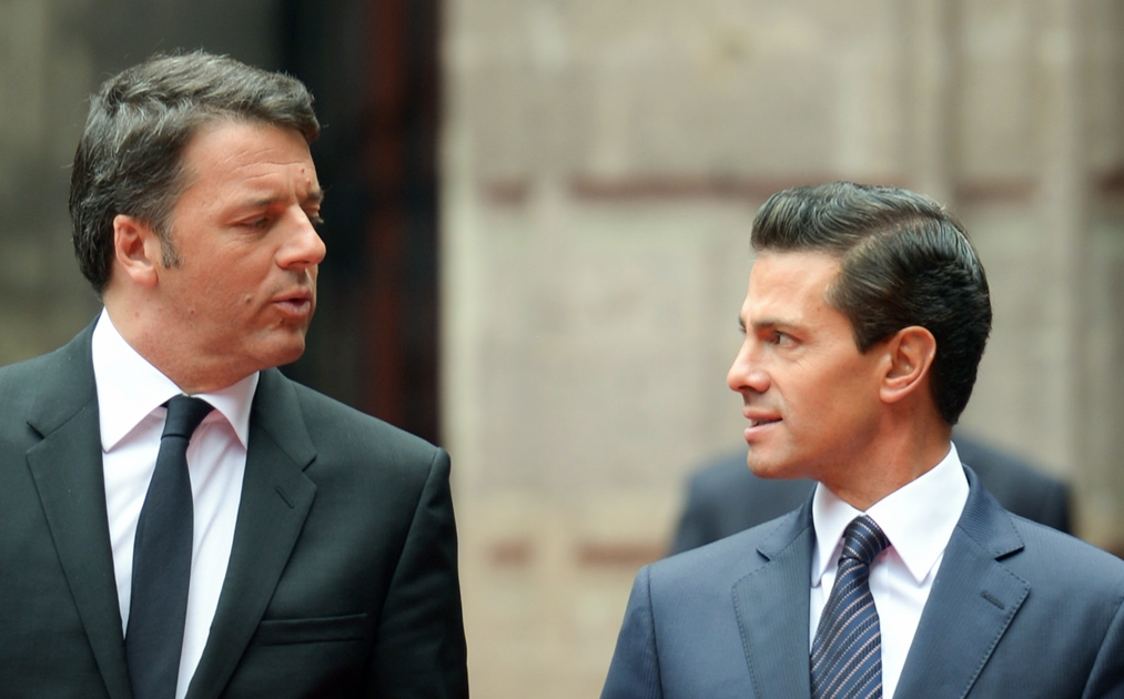 Matteo Renzi with Enrique Peña Nieto in 2016